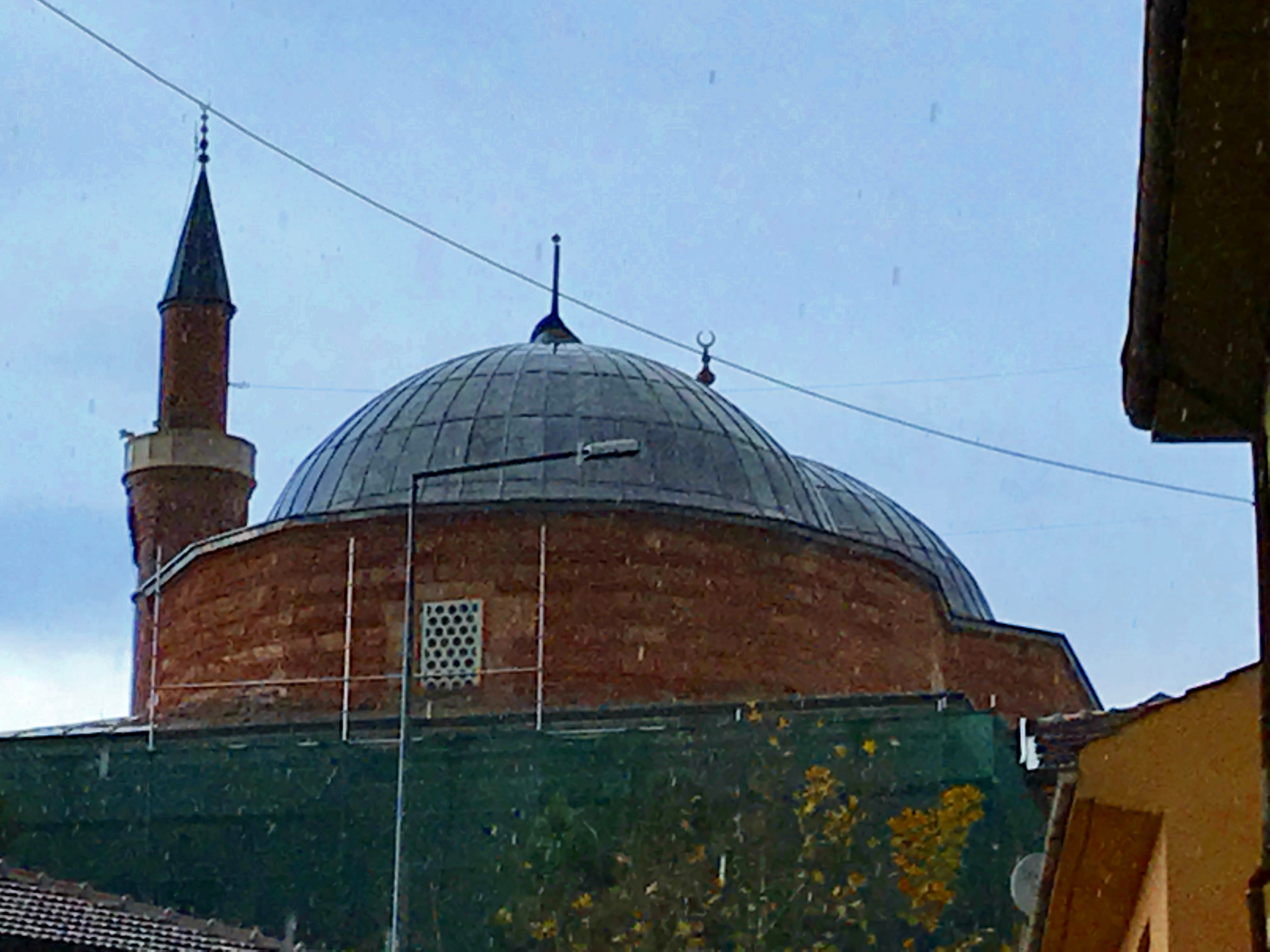 Bayezid I Mosque is a historic mosque in Bursa, Turkey, that is part of the large complex (külliye) built by the Ottoman Sultan Bayezid I (Yıldırım Bayezid – Bayezid the Thunderbolt) between 1391–1395. This picture was taken during 2017's renovations.